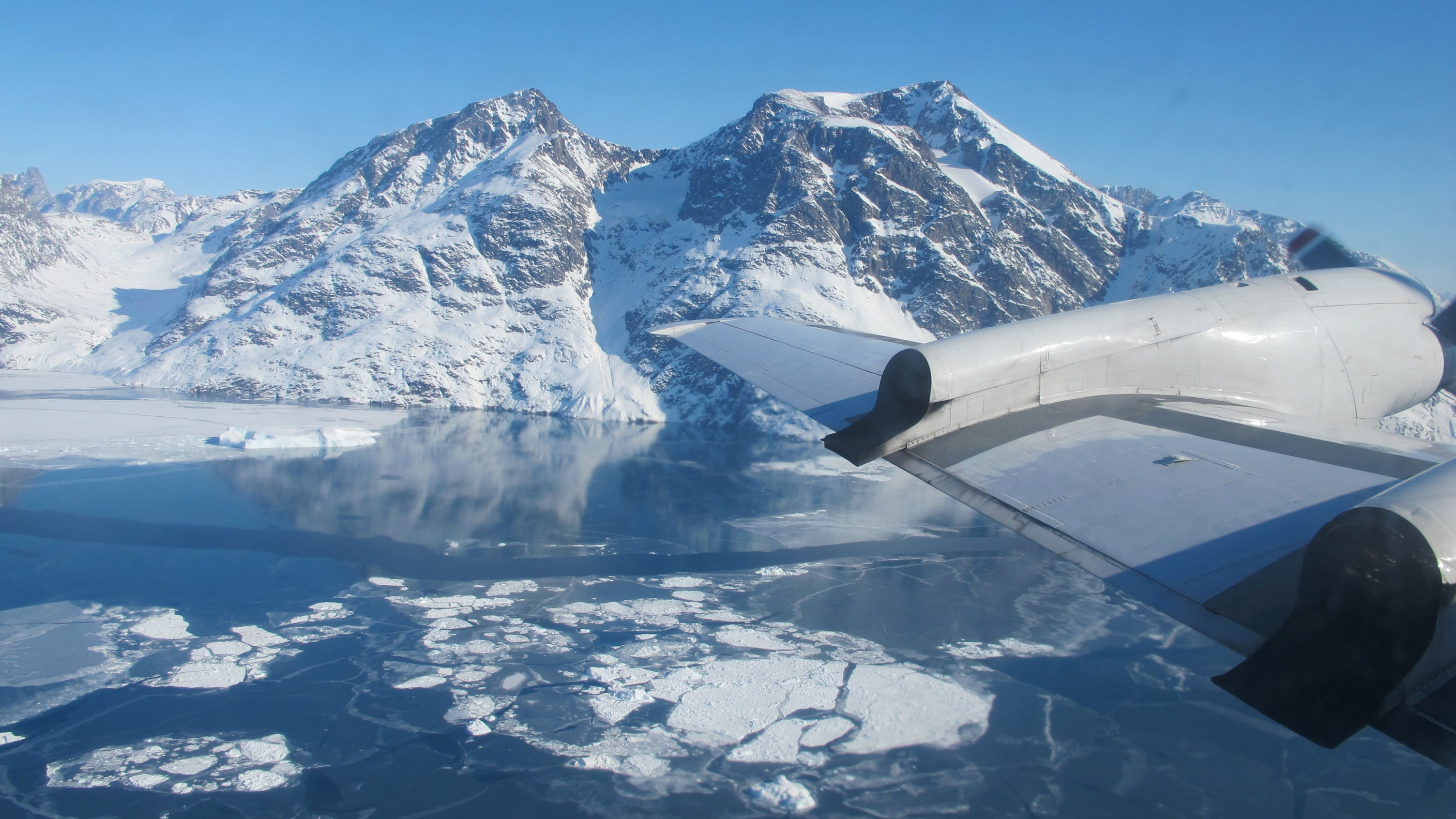 Helheim Fjord in eastern Greenland seen from the NASA P-3B on the Apr. 5, 2013 IceBridge survey flight. Helheim Glacier, one of the largest in Greenland, drains into the ocean through this fjord.